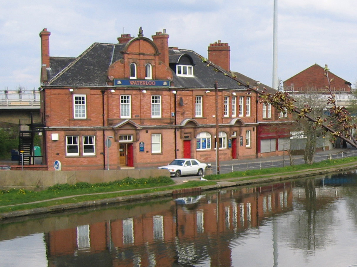 Photograph